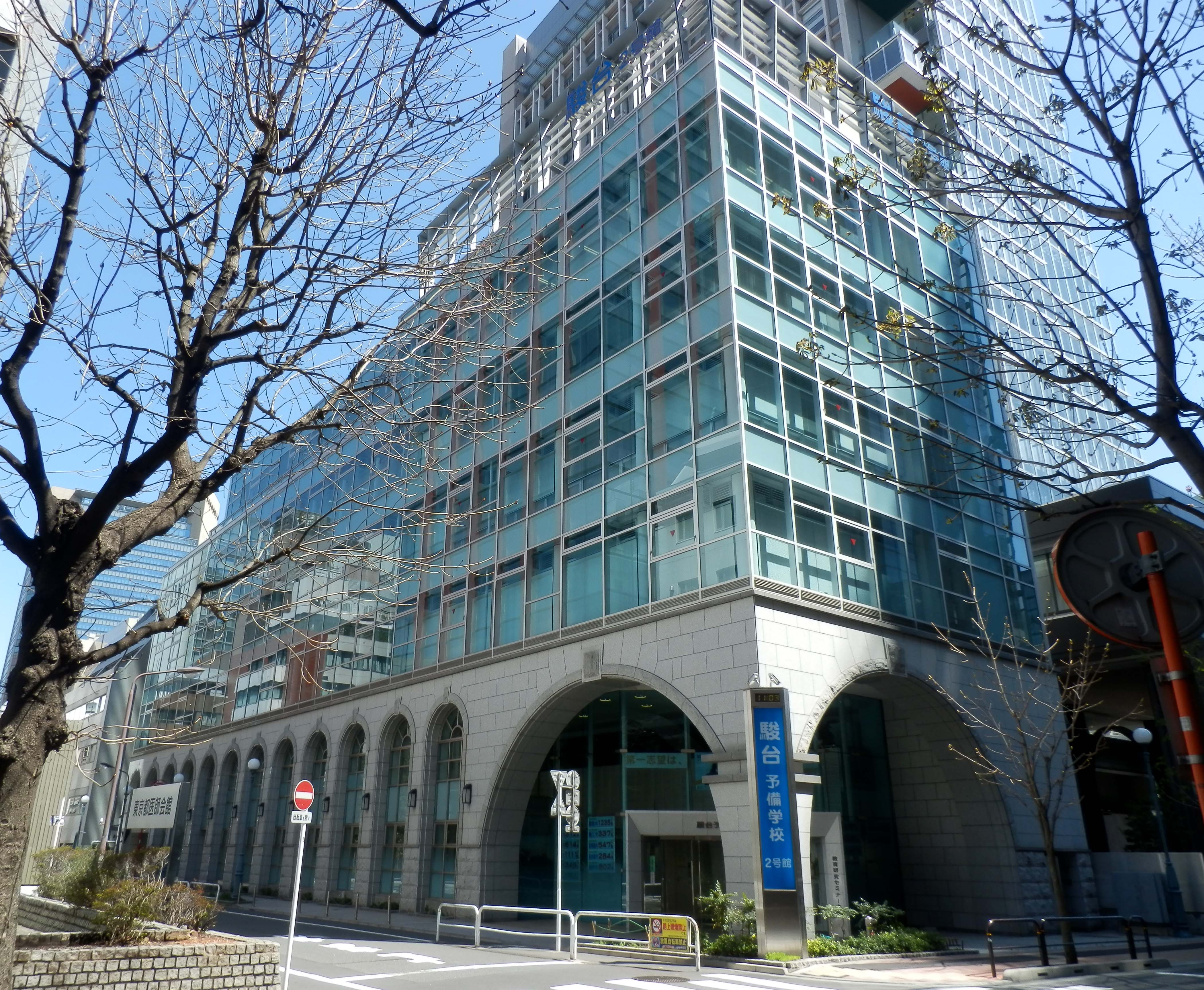 Sundai Preparatory School 2nd Bldg (Kanda-Surugadai, Tokyo, Japan)